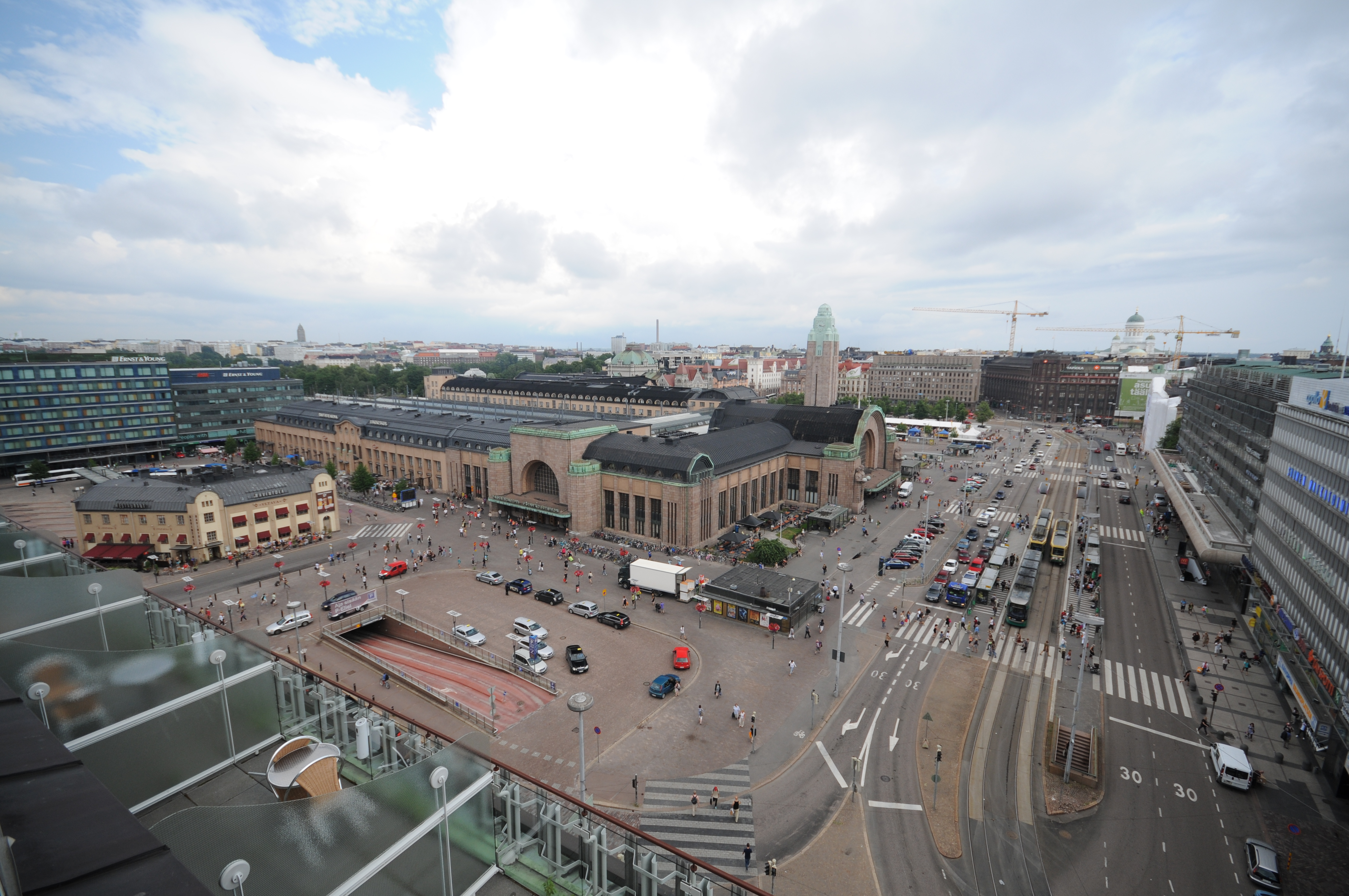 Helsinki Central railway station